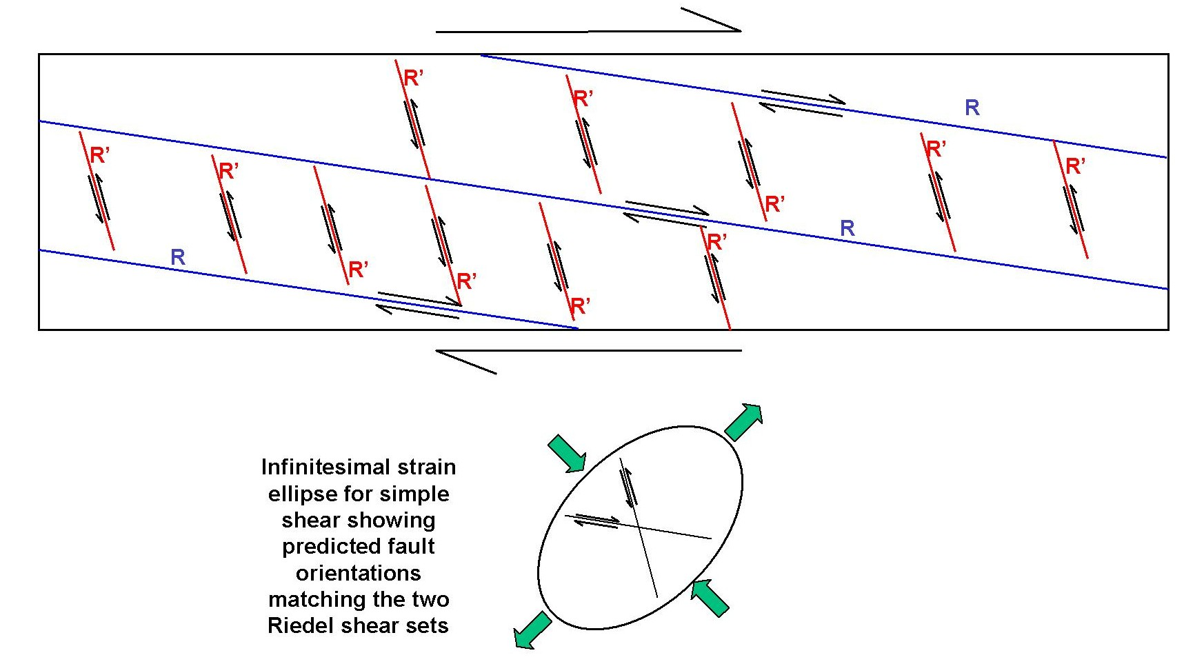 Diagram to explain development of riedel shears